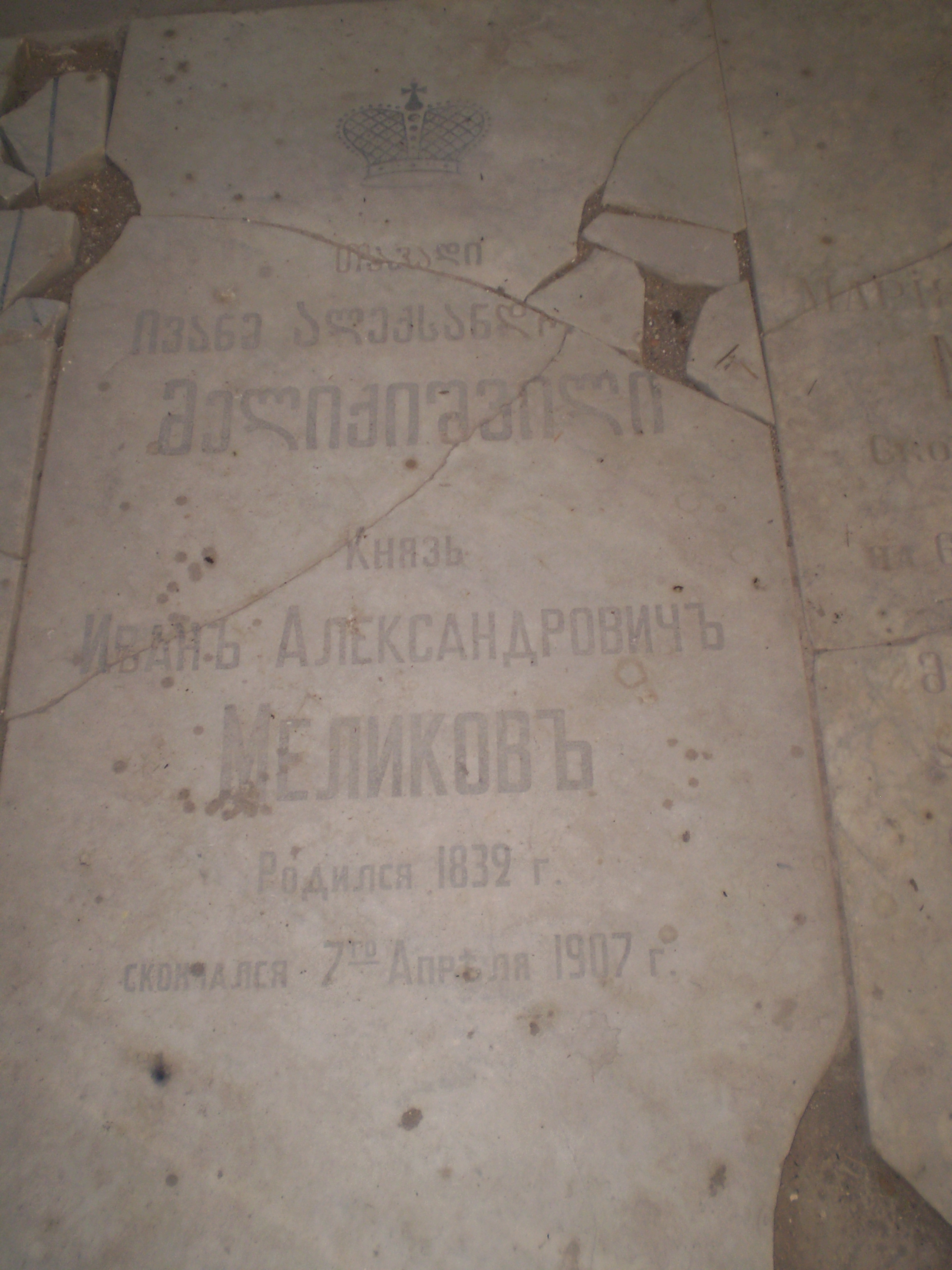 Melikov